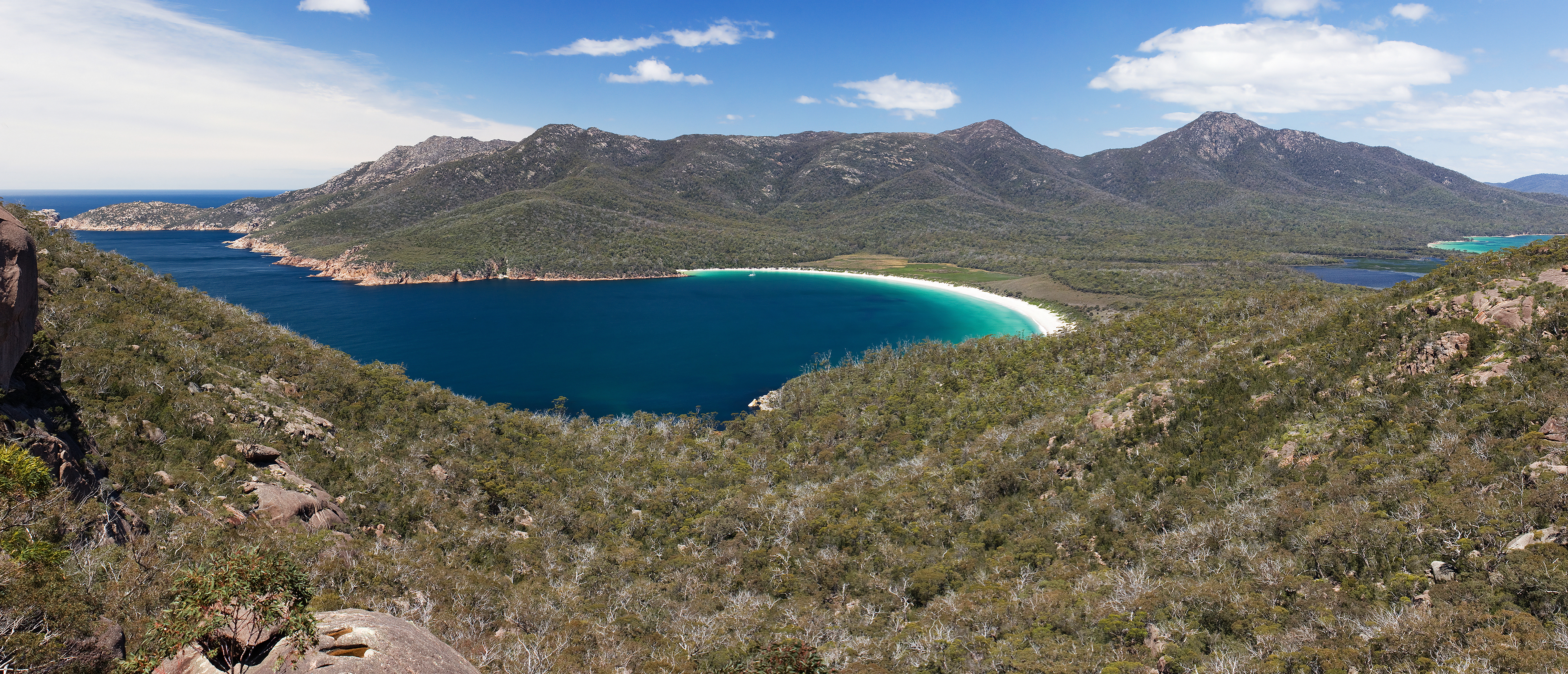 Wineglass Bay from Lookout, Freycinet National Park, Tasmania, Australia